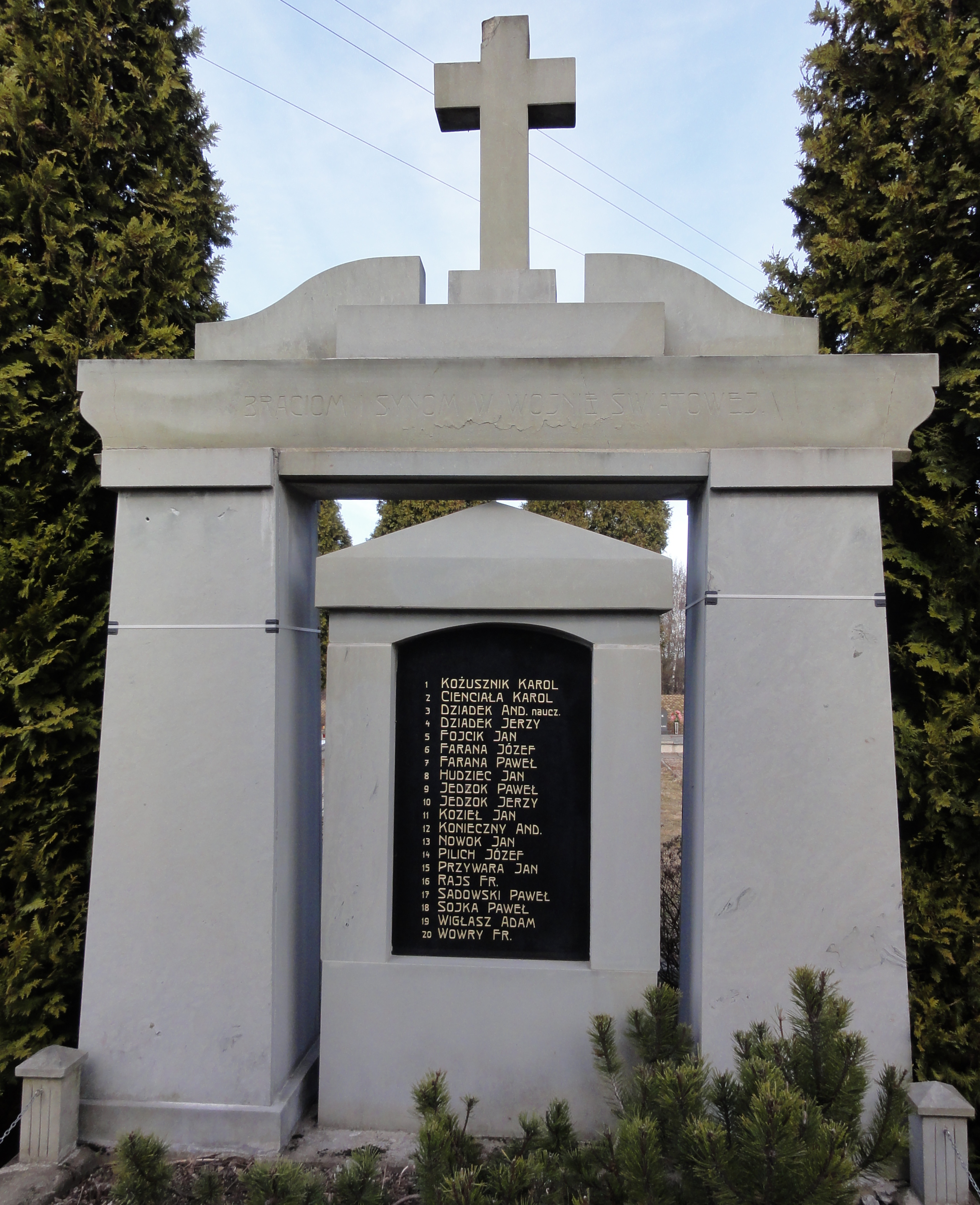 Monument to fallen in I WW in lutheran cemetery in Hażlach, on the second side it's dedicated to fallen in II WW